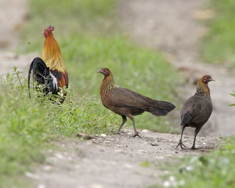 Red Junglefowl at Kaziranga National Park, Assam, India. The is one male (left) and two females. Pure wild strains may be unlikely because of hybridisation with escapees or domestic chicken reintroduced into the wild.